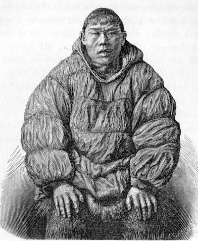 A Chukchi raincoat made of seal intestine